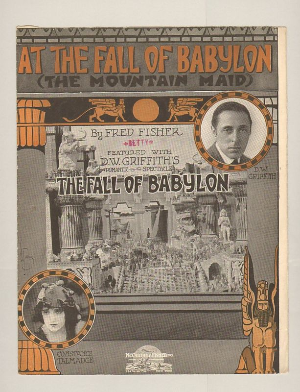 Cover to sheet music At the Fall of Babylon (The Mountain Maid) with photographs from the film Intolerance (1916), Constance Talmadge, and D. W. Griffith.